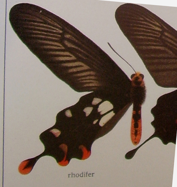 Andaman Clubtail, upperwing